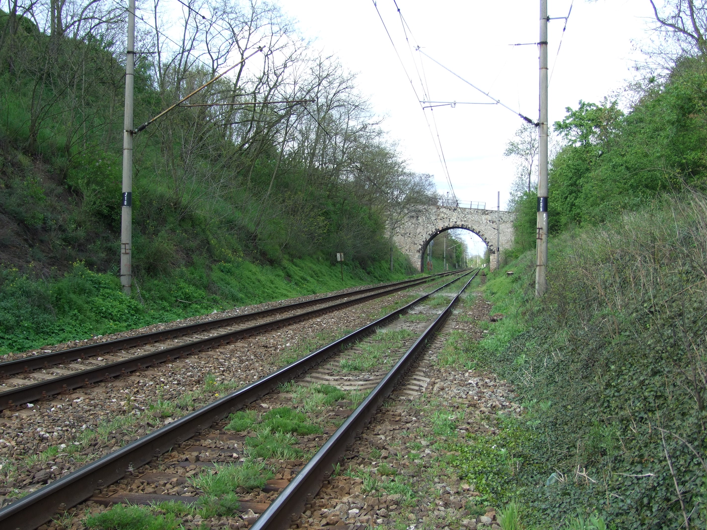 Rail track no. 171 from Prague to Beroun. This is section in Černošice-Mokropsy, Central Bohemian Region, Czech Republic